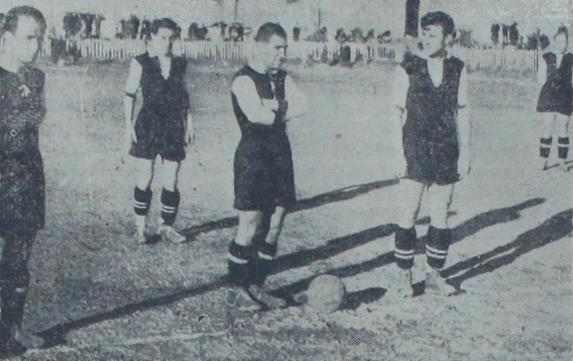 Players of Beşiktaş before the match against Galatasaray, 19 March 1939.